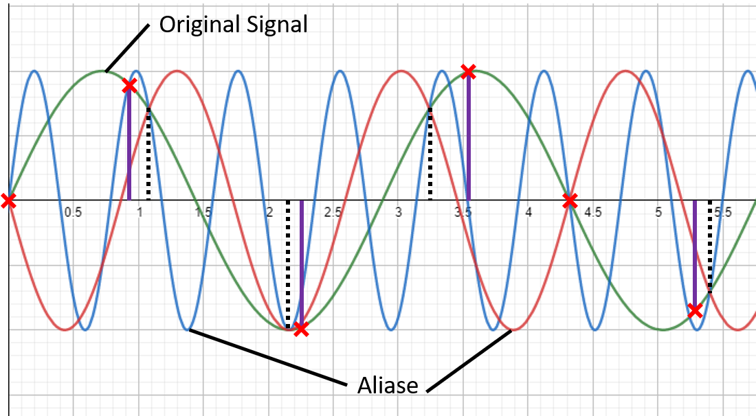 前後調整取樣時間點，可有效避免訊號混疊